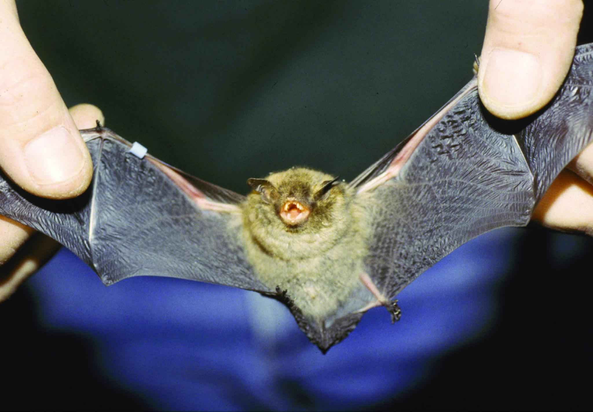 Image title: Indiana bat myotis sodalis Image from Public domain images website